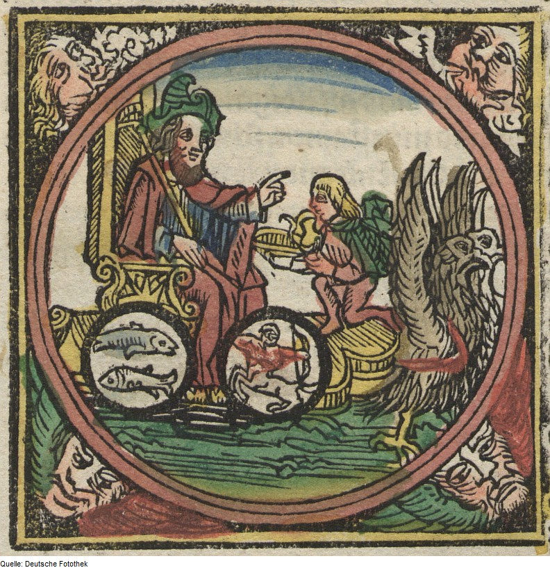 Original image description from the Deutsche Fotothek Astronomie & Planet & Symbol